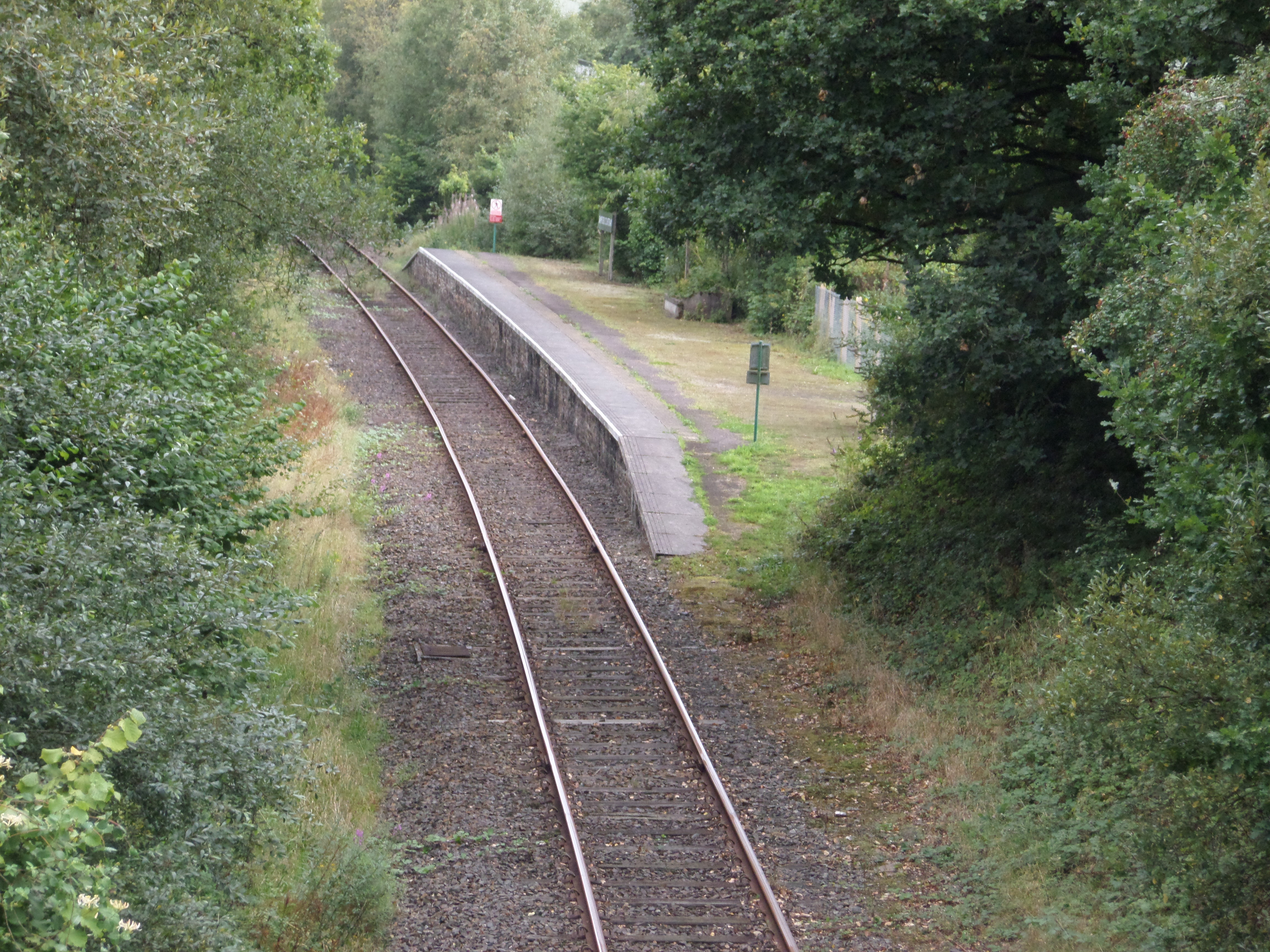 Sampford Courtenay Station, Dartmoor railway, Devon. Rebuilt by the Dartmoor Railway in 2002 and used for Sunday Dartmoor Rover and some other services.